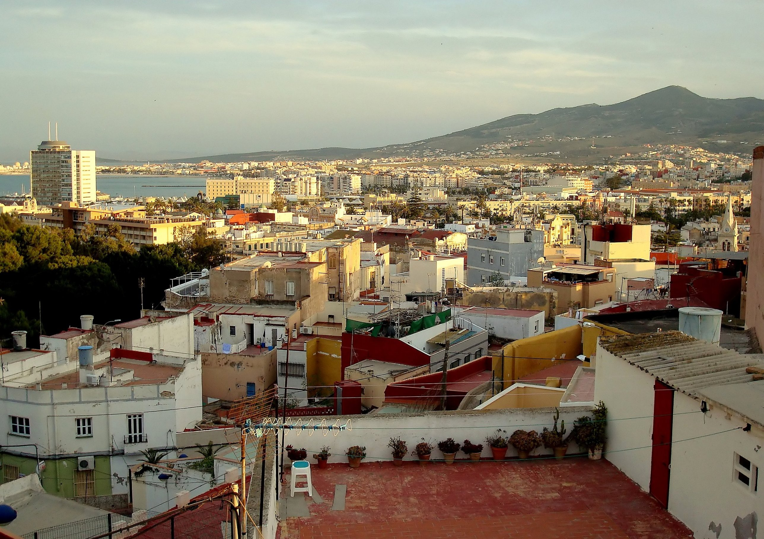 Panoramic view of Melilla (Spain)